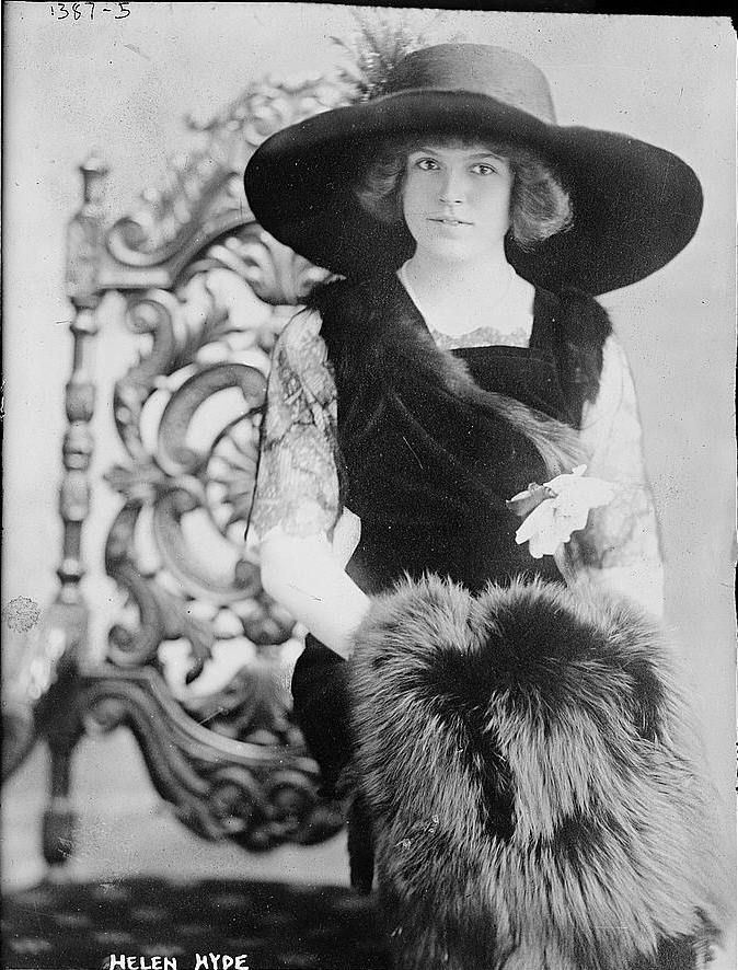 Forms part of: George Grantham Bain Collection (Library of Congress). Title from unverified data provided by the Bain News Service on the negatives or caption cards. General information about the Bain Collection is available at